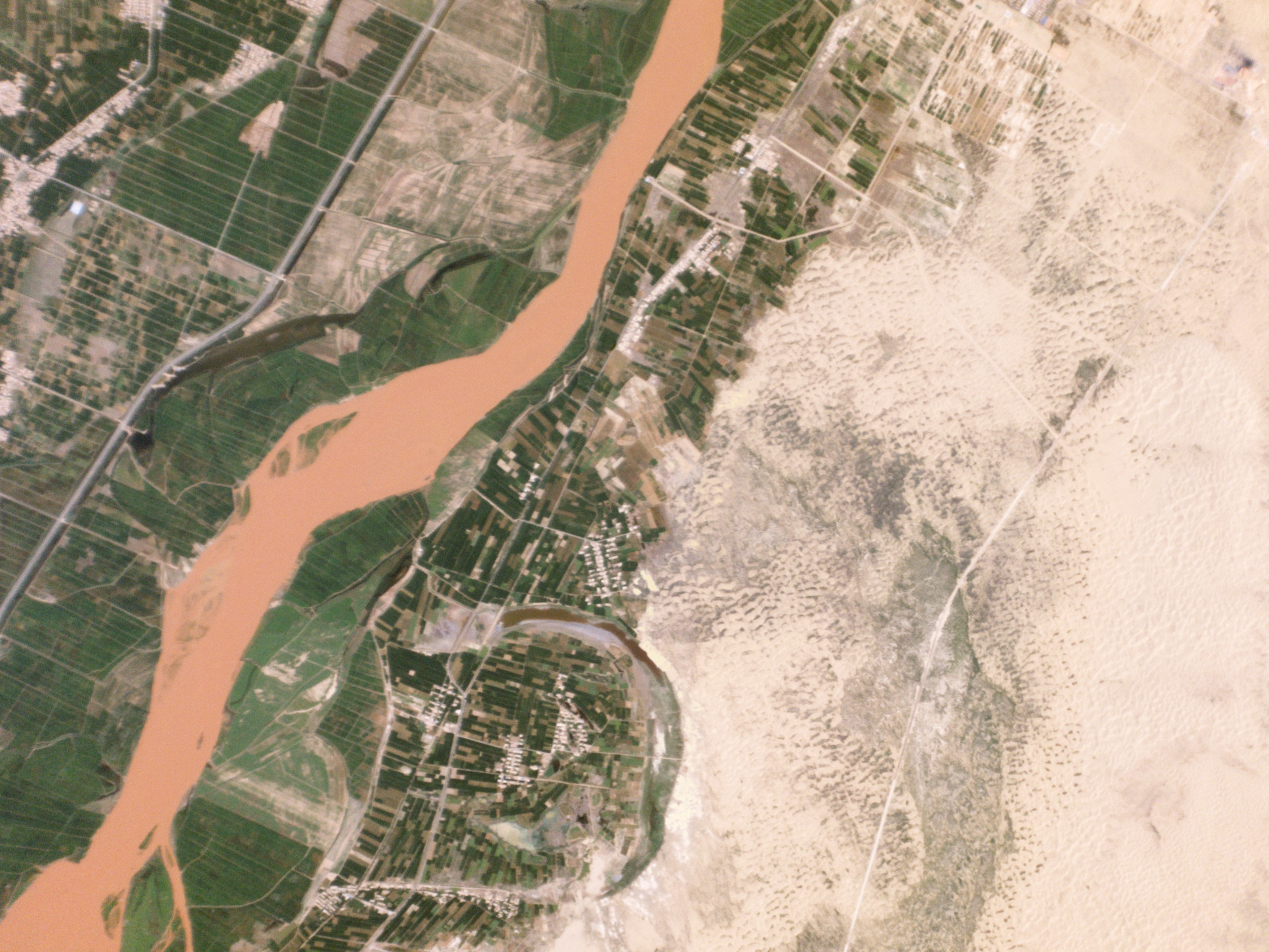 Desertification Control Project, Ningxia China - Planet Labs satellite image. Agricultural lands abut the Yellow River, just outside of Touzha (Touzhazhen?) in Pingluo County, China. This is part of the Ningxia Hui Autonomous Region in Northwestern China, where a desertification control project is under way to preserve agricultural lands.